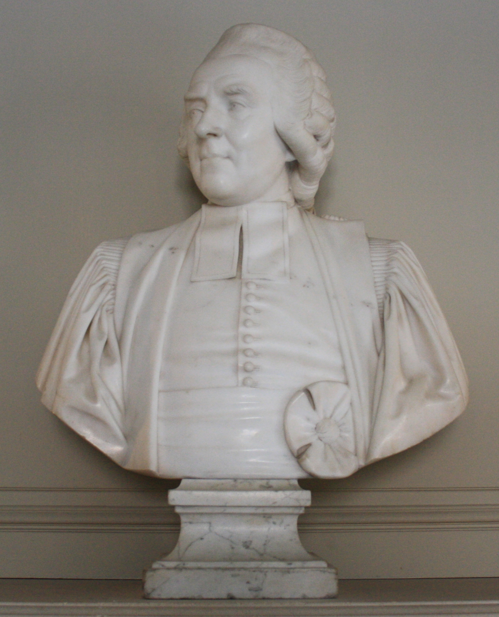 Statue of Louis Thiroux de Crosne, by Augustin Pajou (1788), given by M. Paul Conquet (1966), located in the petit appartement du roi (small apartment of the king) in the Palace of Versailles in Versailles, France